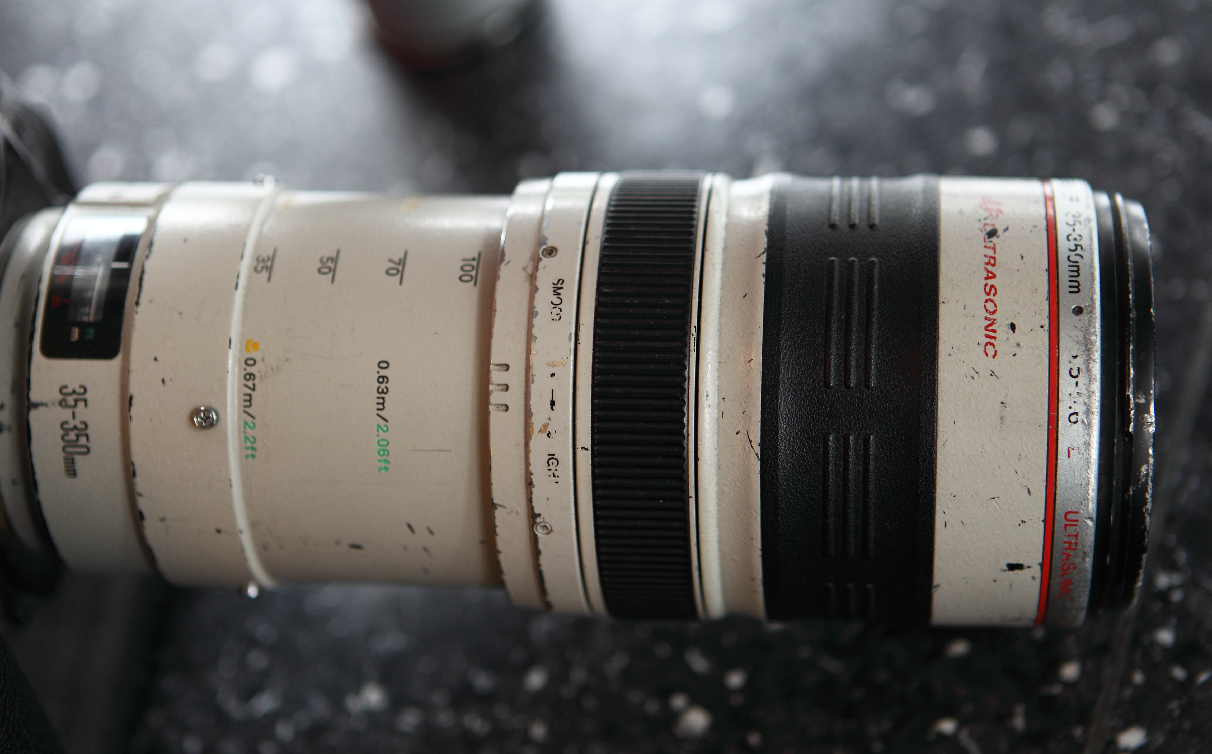 Canon EF 35-350mm f/3.5-5.6L USM telephoto zoom / superzoom lens.